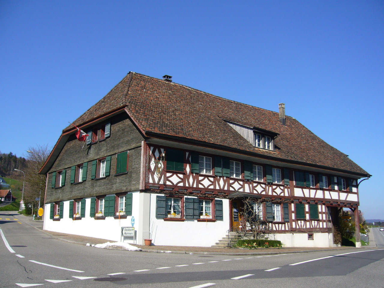 Restaurant Löwen in the village of Herdern, canton Thurgau, Switzerland. Picture taken by Peter Berger, March, 26, 2007.